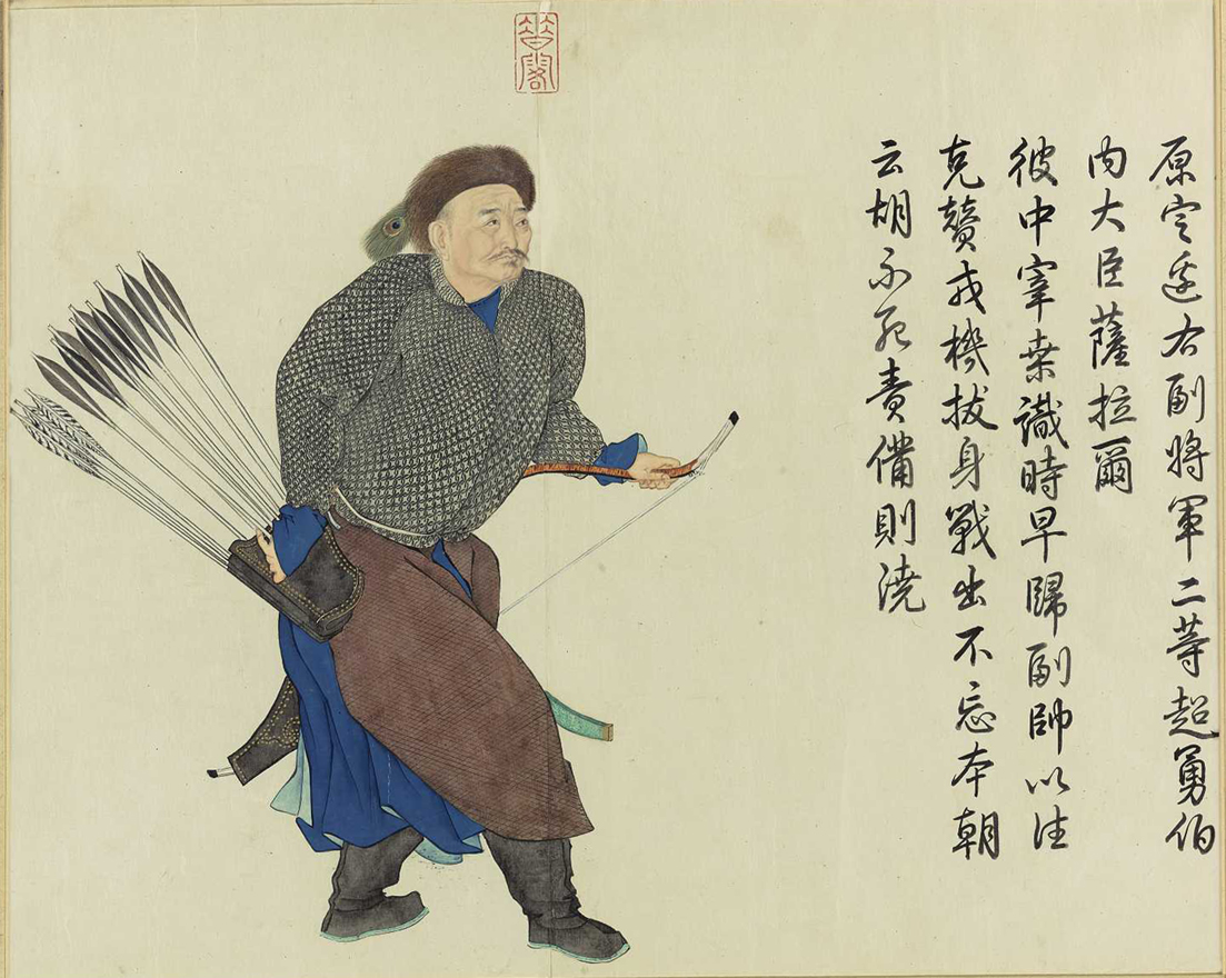 Saral (died 1759), a Dzungar(west mongol) officer of the mongol plain yellow banner of the Qing Army during Qianlong's era